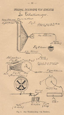 Constantin Senlecq's original design of the Telectroscope in 1881 reproduced in Dionys von on Mihaly's Das elektrische Fernshen und das Telehor, Verlag von M. Krayn, Berlin, 1923.